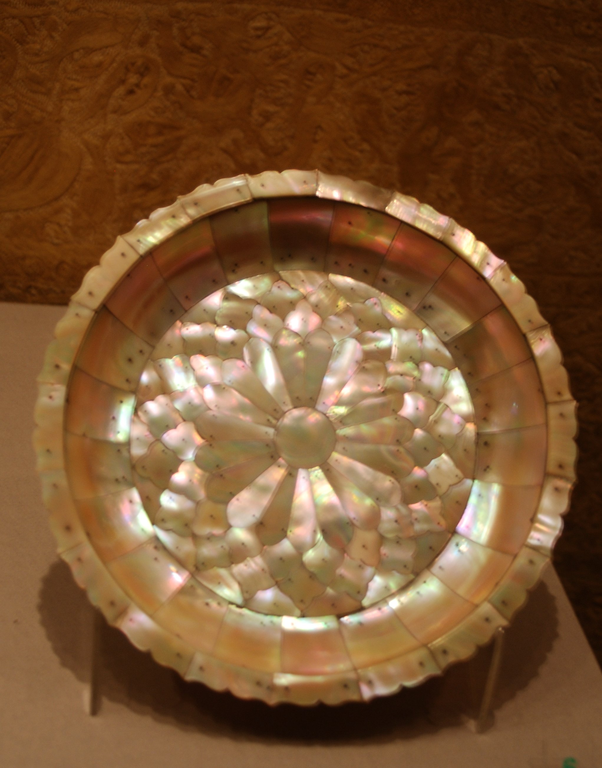 Basin Mother-of-pearl, with metal pins Gujarat 16th or early 17th century 4282.1857 Articles fashioned with mother-of-pearl plaques were made in Gujarat for local use as well as for export to foreign markets. In Europe, the rarity of the material and the distinctive craftsmanship of such objects made them much sought after for Wunderkammern or cabinets of curiosities. They featured in Renaissance princely collections as well as in church treasuries, and were frequently embellished with rich mounts. Mother-of-pearl basins such as these are often accompanied by matching ewers based on contemporary European silver models. Wikipedia Loves Art at the Victoria and Albert Museum This photo of item # 4282-1857 at the Victoria and Albert Museum was contributed under the team name "drakr" as part of the Wikipedia Loves Art project in February 2009. Victoria and Albert Museum The original photograph on Flickr was taken by Niecieden—please add a comment to the original Flickr page whenever a use has been made on Wikipedia or another project. Project galleries on Flickr: this institution, this team